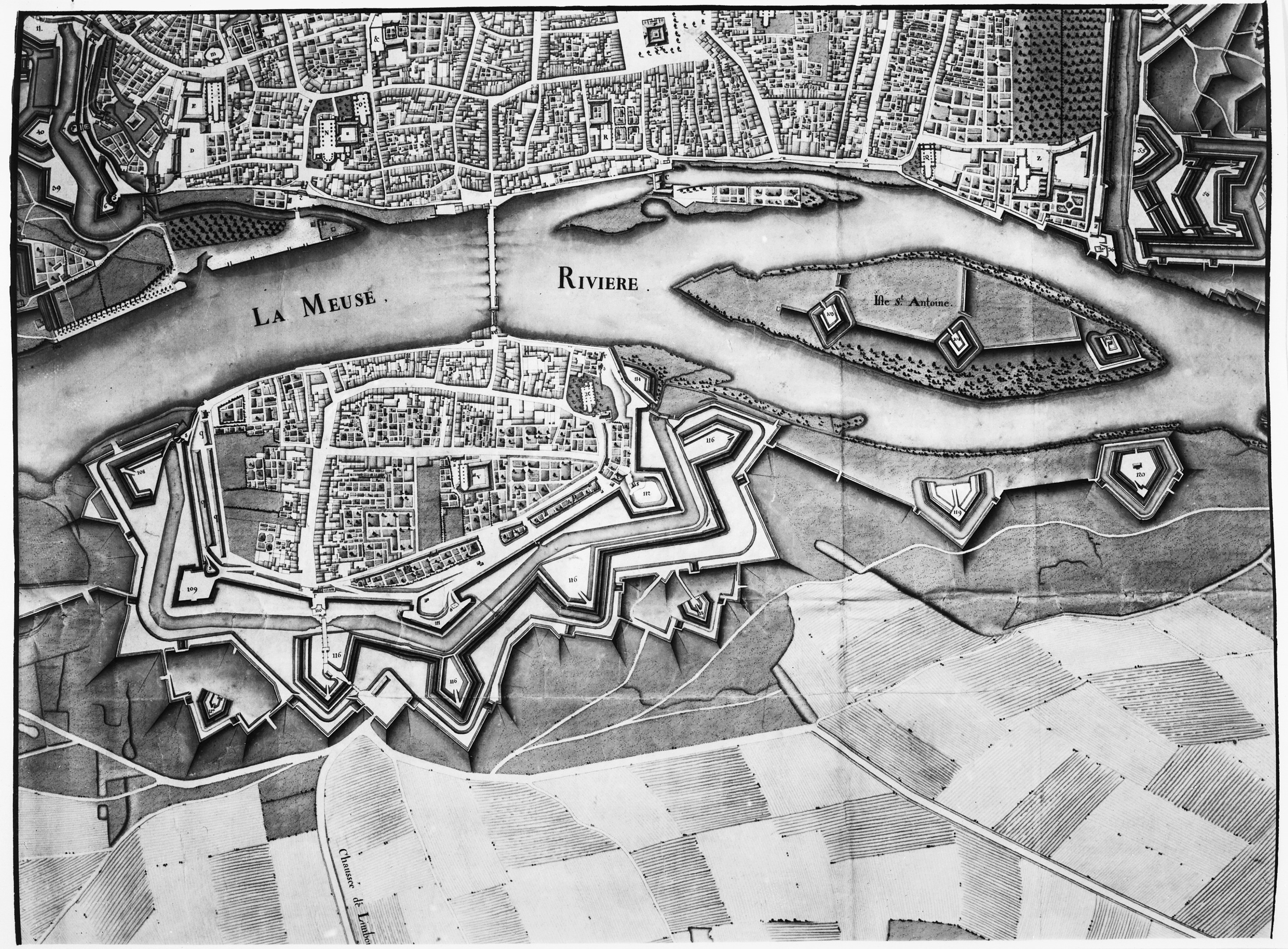 Maastricht, the Netherlands. Part of a map showing the eastern suburb of Wyck in 1749. The map by French military engineer Jean-Baptiste Larcher d'Aubencourt was used to built the Maquette of Maastricht (1752), now in the Musée de Beaux Arts in Lille, France. The map (or a copy?) is in the collection of RHCL archives, Maastricht.